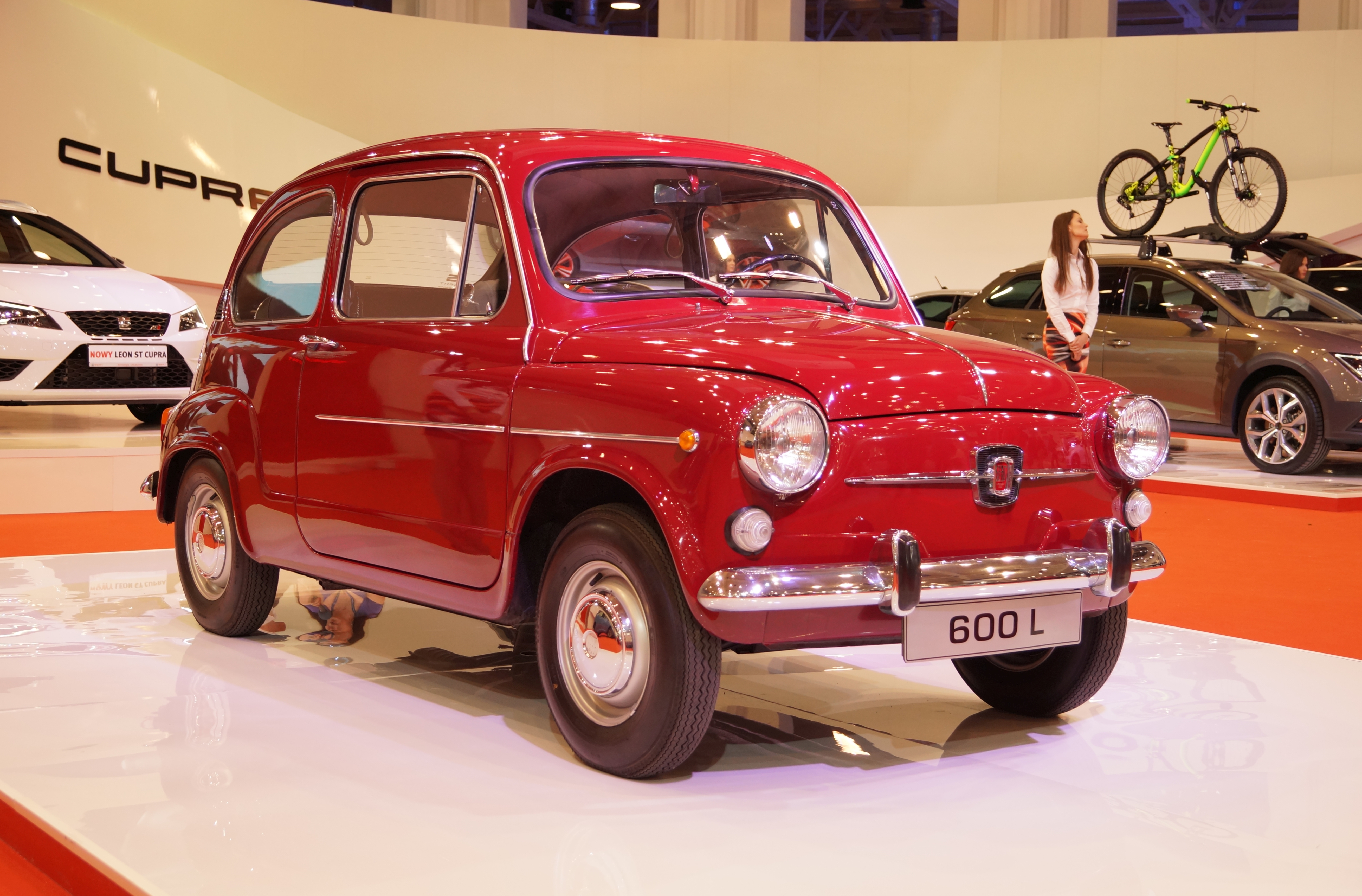 The making of this document was supported by Wikimedia Polska Association, within Wikigrant no. WG 2015-19. Przód Seata 600L na Motor Show Poznań 2015